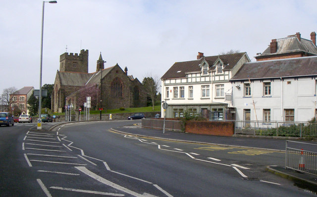 Church A church in Llanelli.